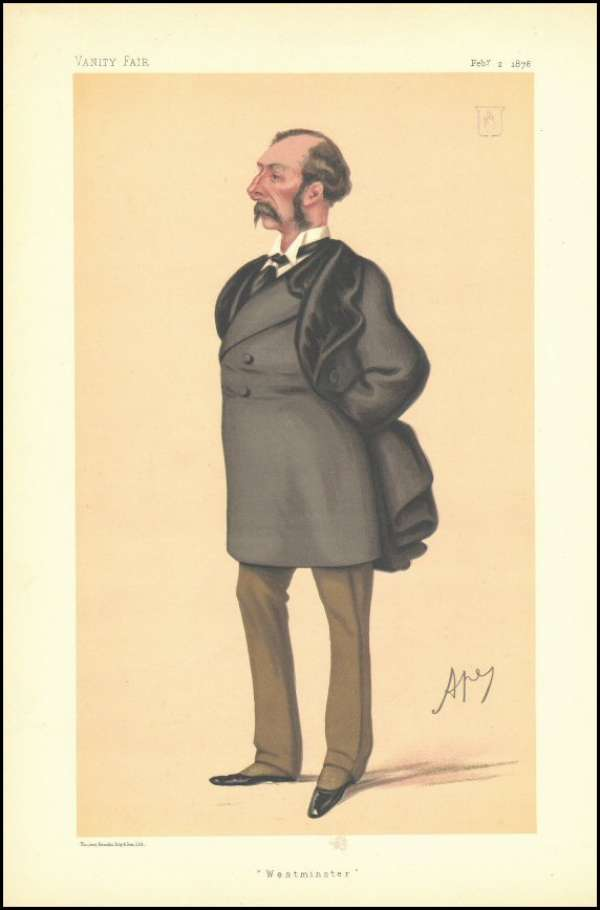 Caricature of Sir Charles Russell, 3rd Baronet VC MP. Caption read "Westminster".